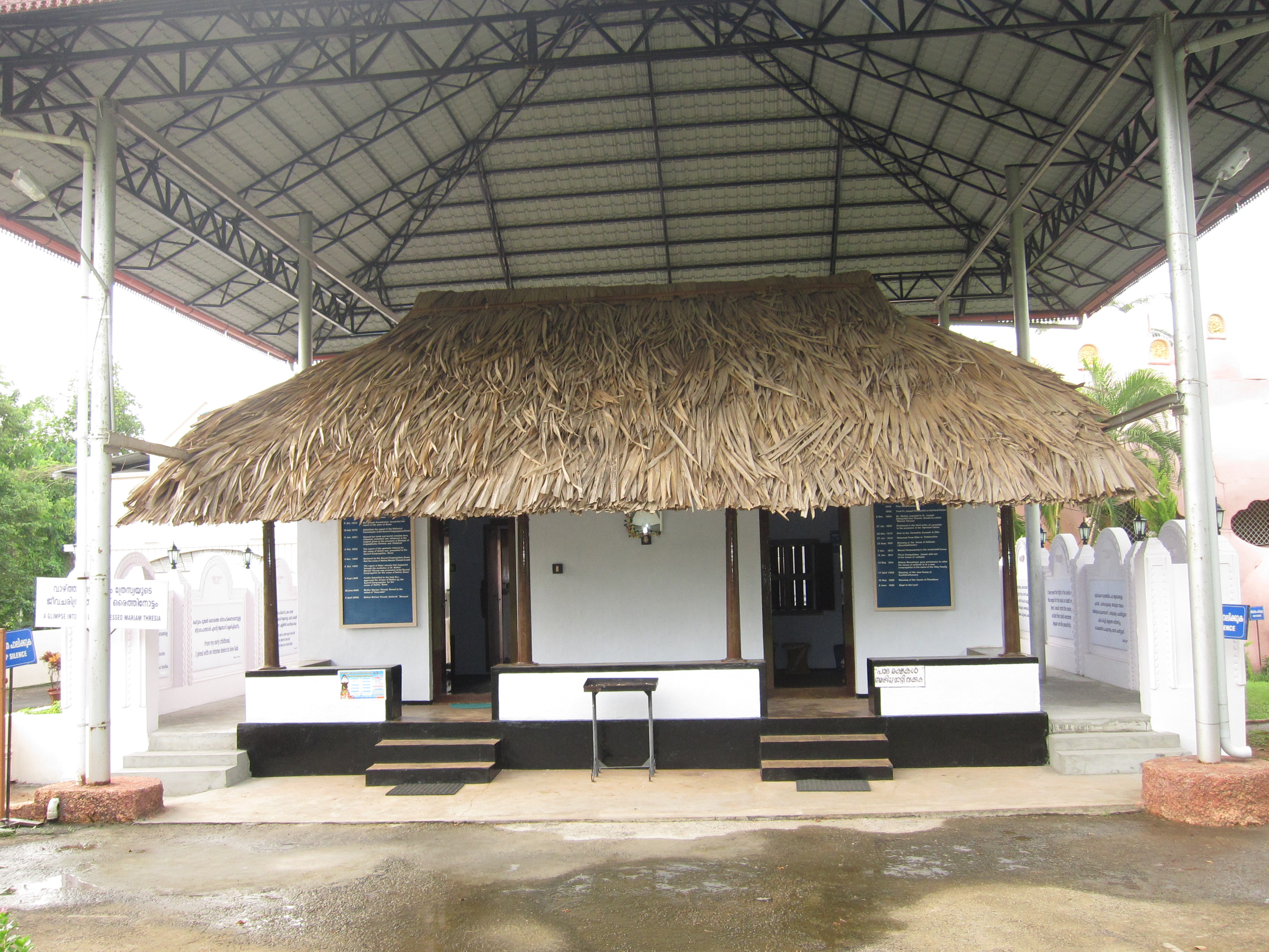 Mariam Thresia - മറിയം ത്രേസ്യ Birth Place - ജന്മസ്ഥലം Puthenchira - പുത്തൻചിറ Thrissur District തൃശ്ശൂർ ജില്ല